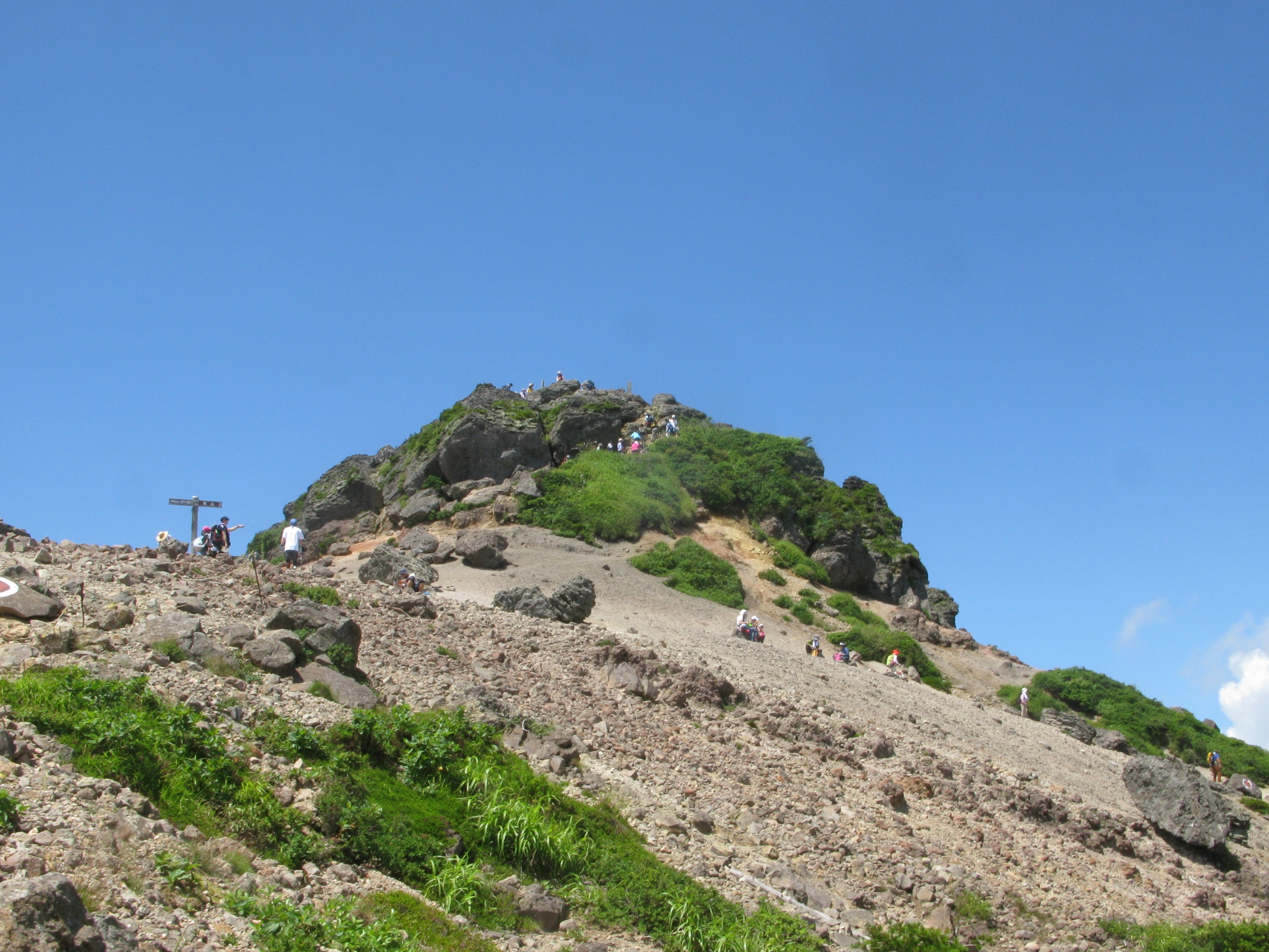 Summit of Mount Adatara in Fukushima Prefecture, Japan